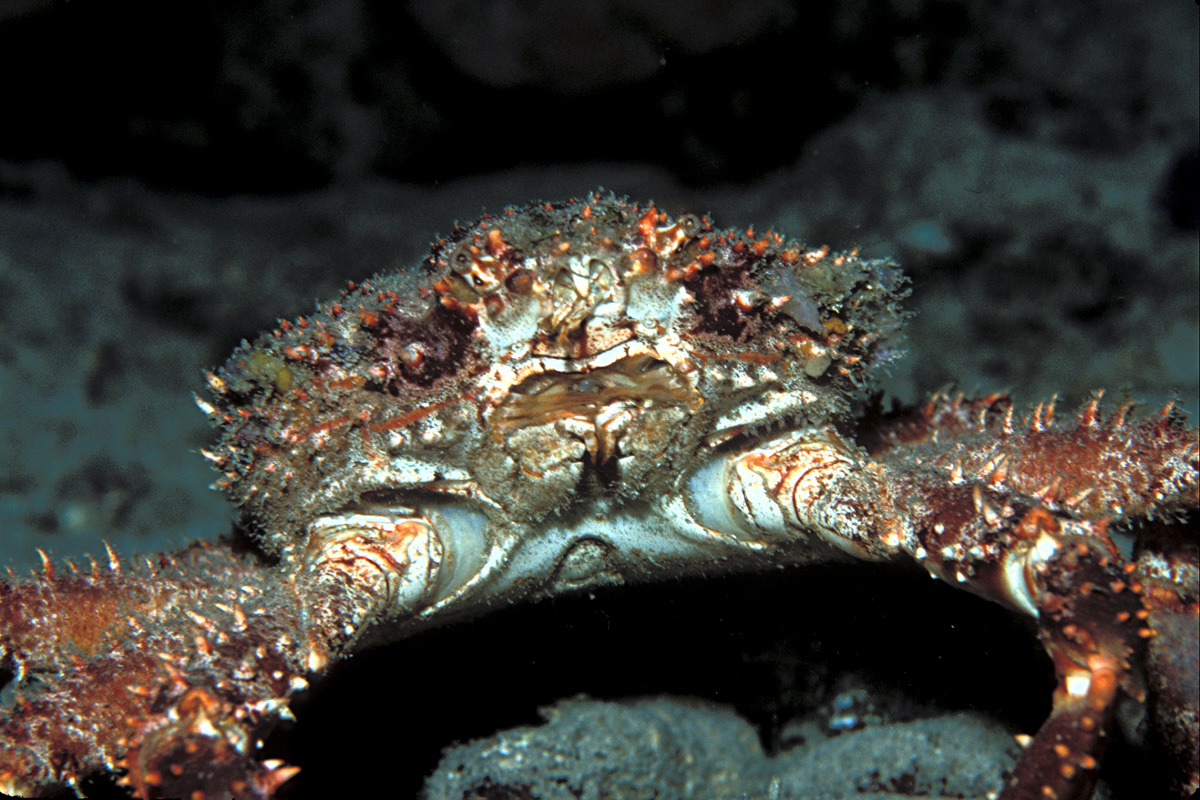 This nocturnal Hairy Clinging Crab (Mithrax aculeatus) was less than happy to see me. It was walking around, exposed, on a coral rubble heap at about 7 meters depth at a divesite known as "Wetsuit City." My housed SLR was fitted with my 105mm macro lens, so I did my best to frame the panicked crustacean, trying to dodge my underwater lights.